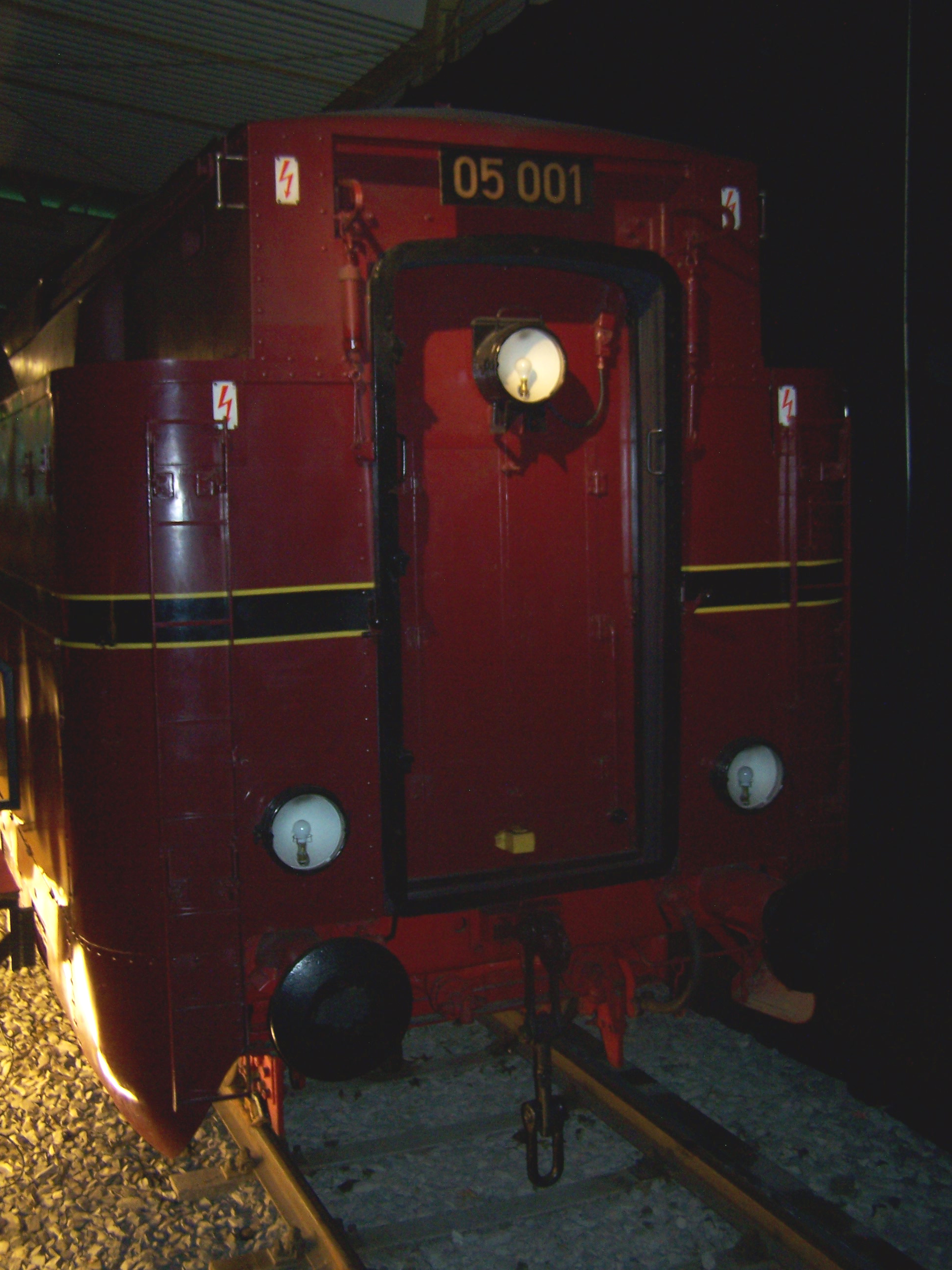 Rear view of the tender of the historic steam locomotive 05 001 from 1935 in the Transport Museum in Nuremberg in the exhibition "Adler, Rocket and Co."